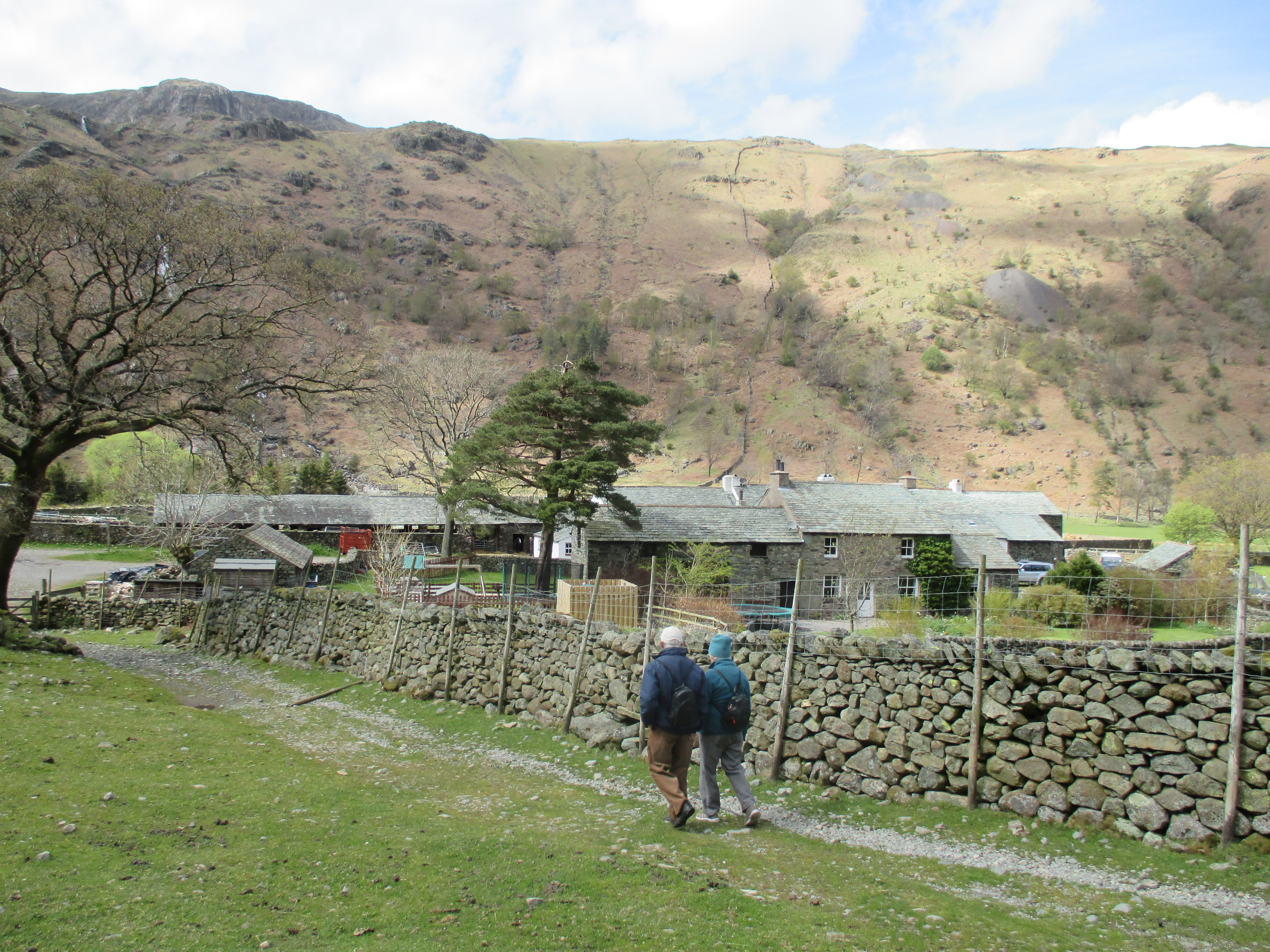 Seathwaite, at the head of Borrowdale, Cumbria, photographed from the east.